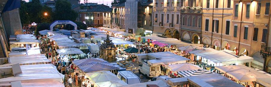 Fiera di San Giovanni in Piazza del Popolo